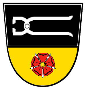 Coat of arms of Zangenstein in Schwarzhofen, Bavaria